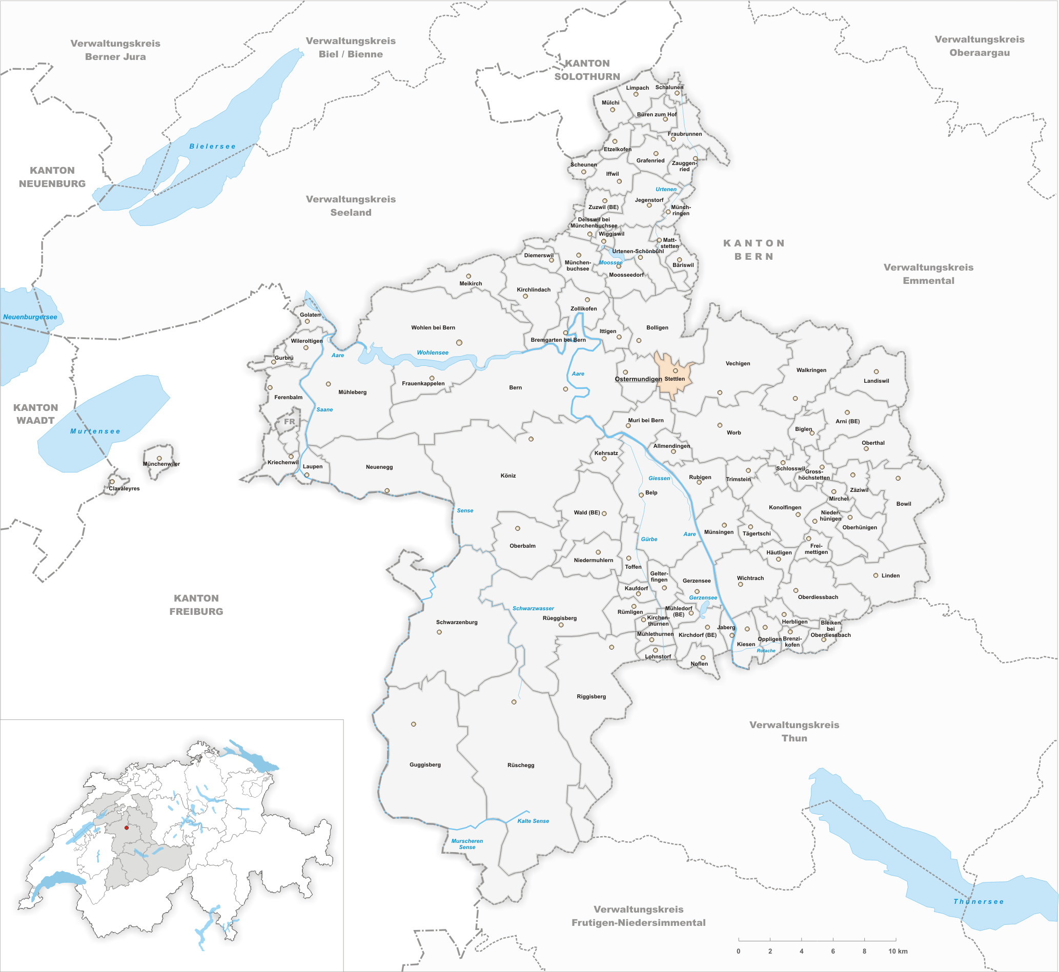 Municipality Stettlen